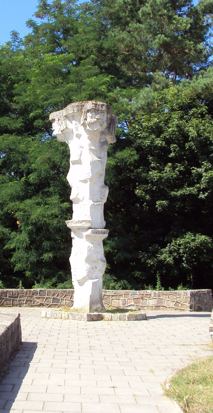 Statue of slavic god Triglav in Wolin, Poland.